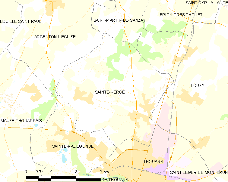 Map of French municipality Sainte-Verge